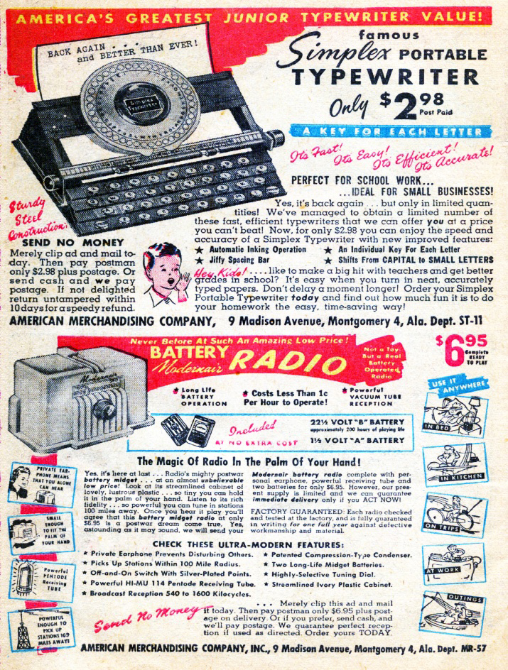 America's Best Comics #26, Page 50, May 1948